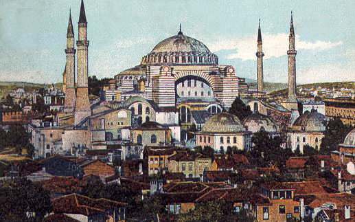 Hagia Sophia in an old postcard